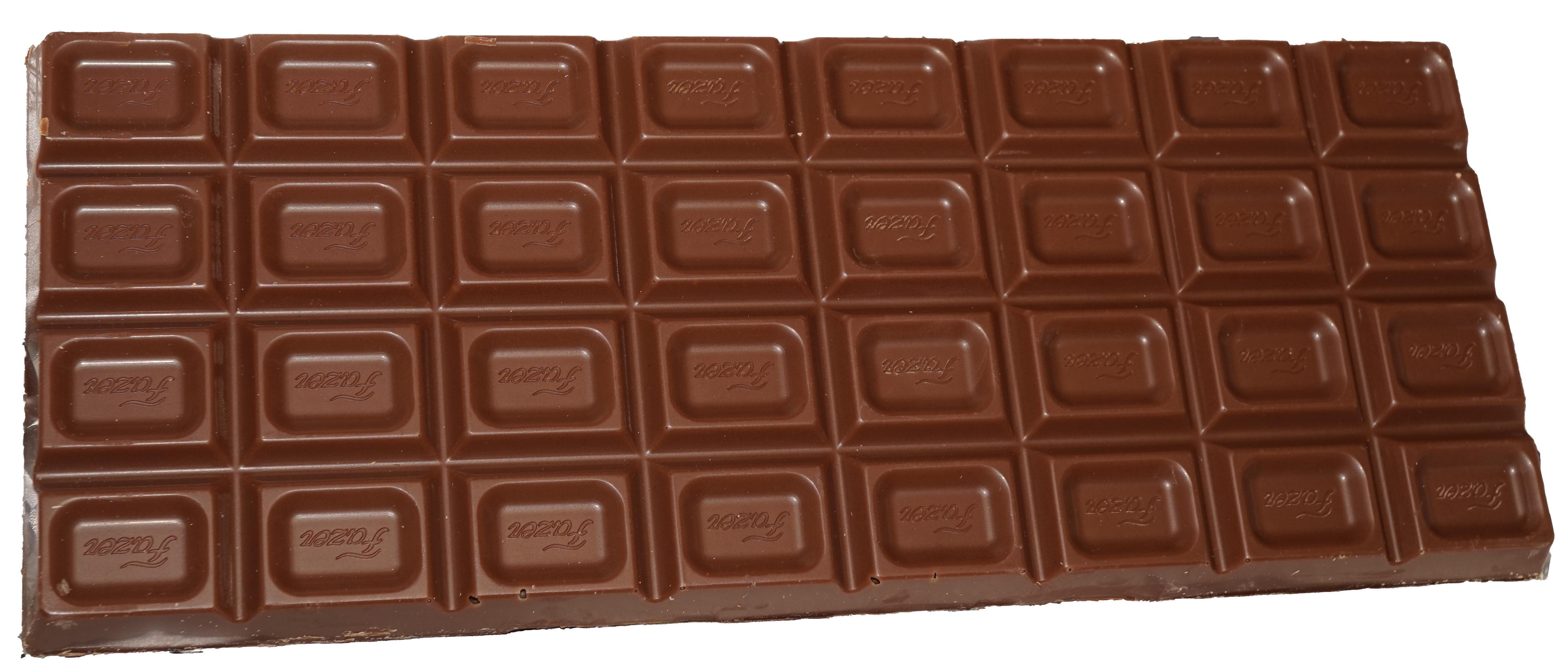 Fazer Blue chocolate 200 grams.